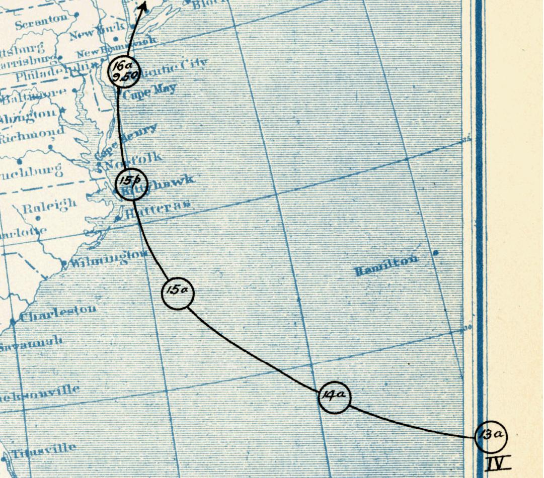 Operational Track of Hurricane 4 of 1903